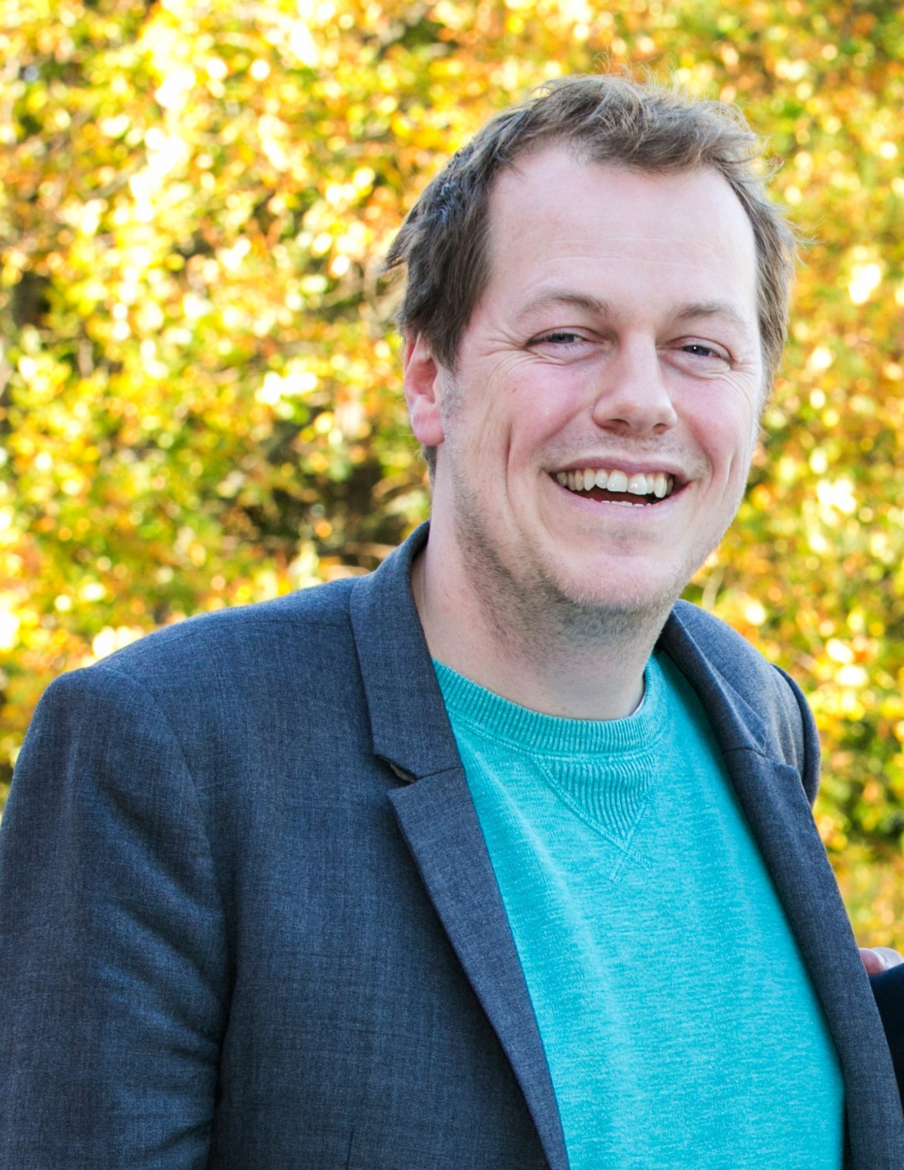 5 November 2014; Tom Parker Bowles, Food Editor, Esquire Magazine; and Margaret Jeffares, founder of Good Food Ireland, with Rowley Leigh, Cookery Correspondent, Financial Times, during Day 2 of the 2014 Web Summit in the RDS, Dublin, Ireland. Picture credit: Naoise Culhane / SPORTSFILE / Web Summit